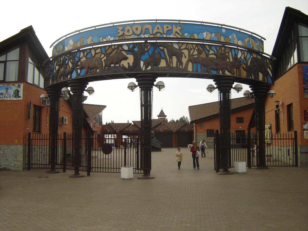 Izhevsk zoo entrance